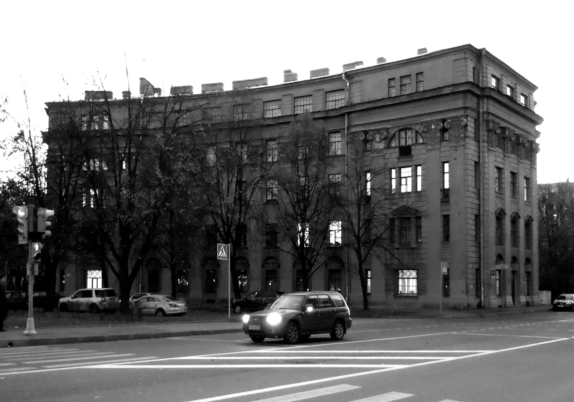 St Petersburg, Russia. Kahovskogo Lane-2. Architects - I. Fomin and E. Stalberg (1914).